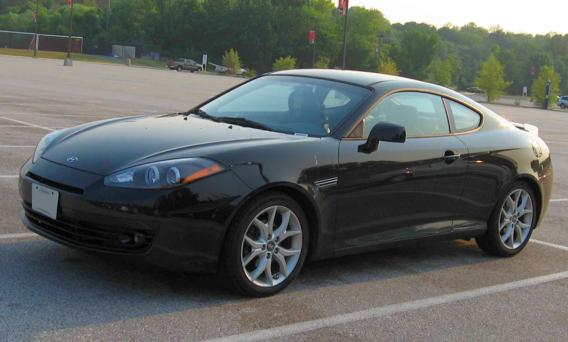 2007 Hyundai Tiburon photographed in USA.